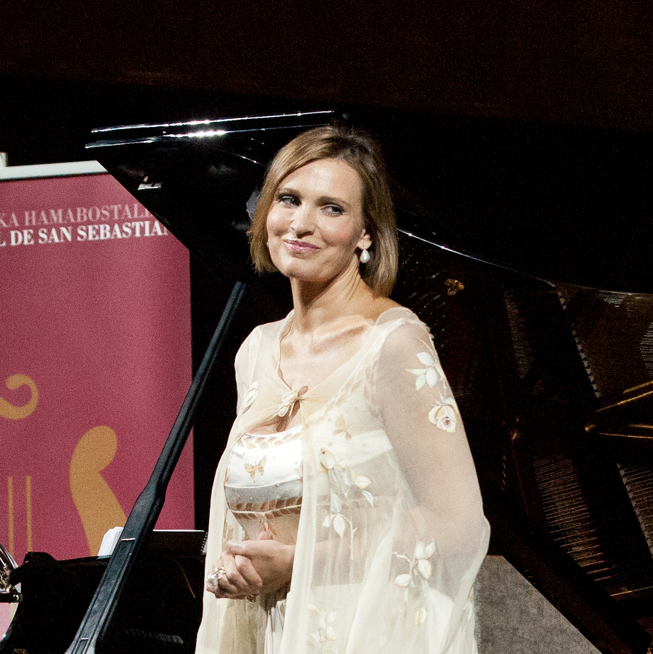 Photo on Flickr of Ainhoa Arteta at the Quincena Musical released with "Some Rights Reserved" (CC BY 2.0). Os informamos de que la Quincena Musical de San Sebastián está en esta edición en la plataforma de imágenes Flickr, en la que cada día carga fotos de conciertos, ensayos y otros momentos del Festival. Estas imágenes están a disposición de los medios de comunicación, así como del público general, y el acceso y uso de las mismas es gratuito. El único requisito para su utilización es firmar las fotos como Quincena Musical / Iñigo Ibáñez.